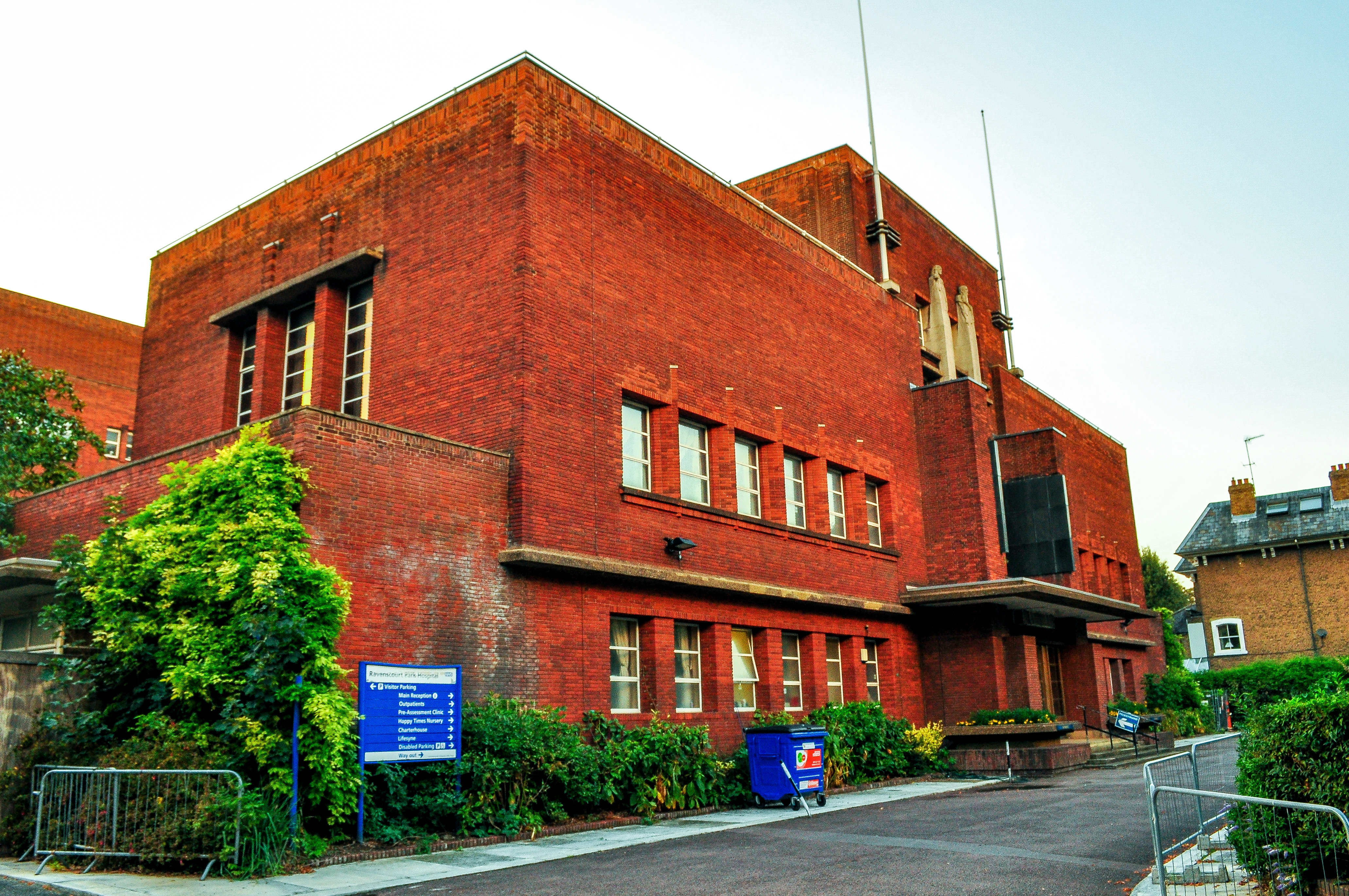 ROYAL MASONIC HOSPITAL, WITH ASSOCIATED BOUNDARY WALLS, GATES, RAILINGS AND PLANTERS Wikidata has entry Q7374459 with data related to this building.